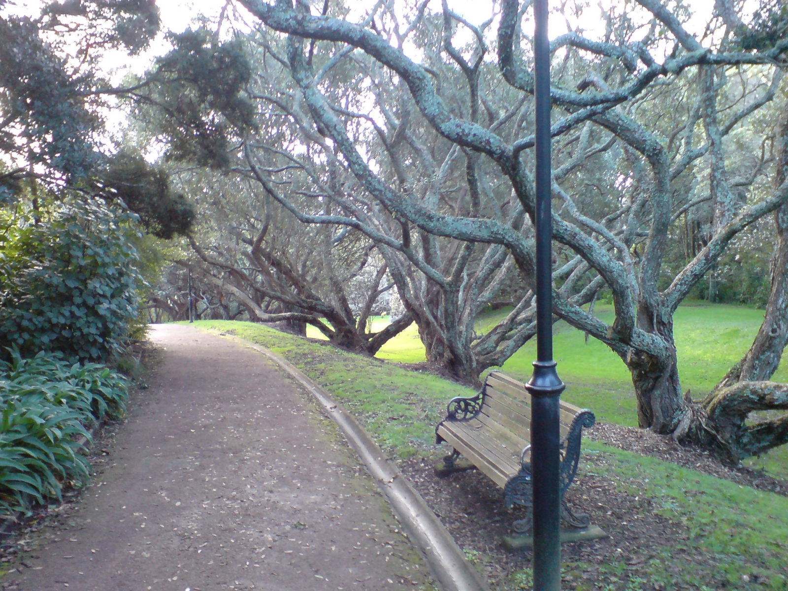 Weird-looking (also quite beautiful) trees in the Auckland Domain in Auckland City, New Zealand. Coordinates are only approximate, the image is looking north to northwest.